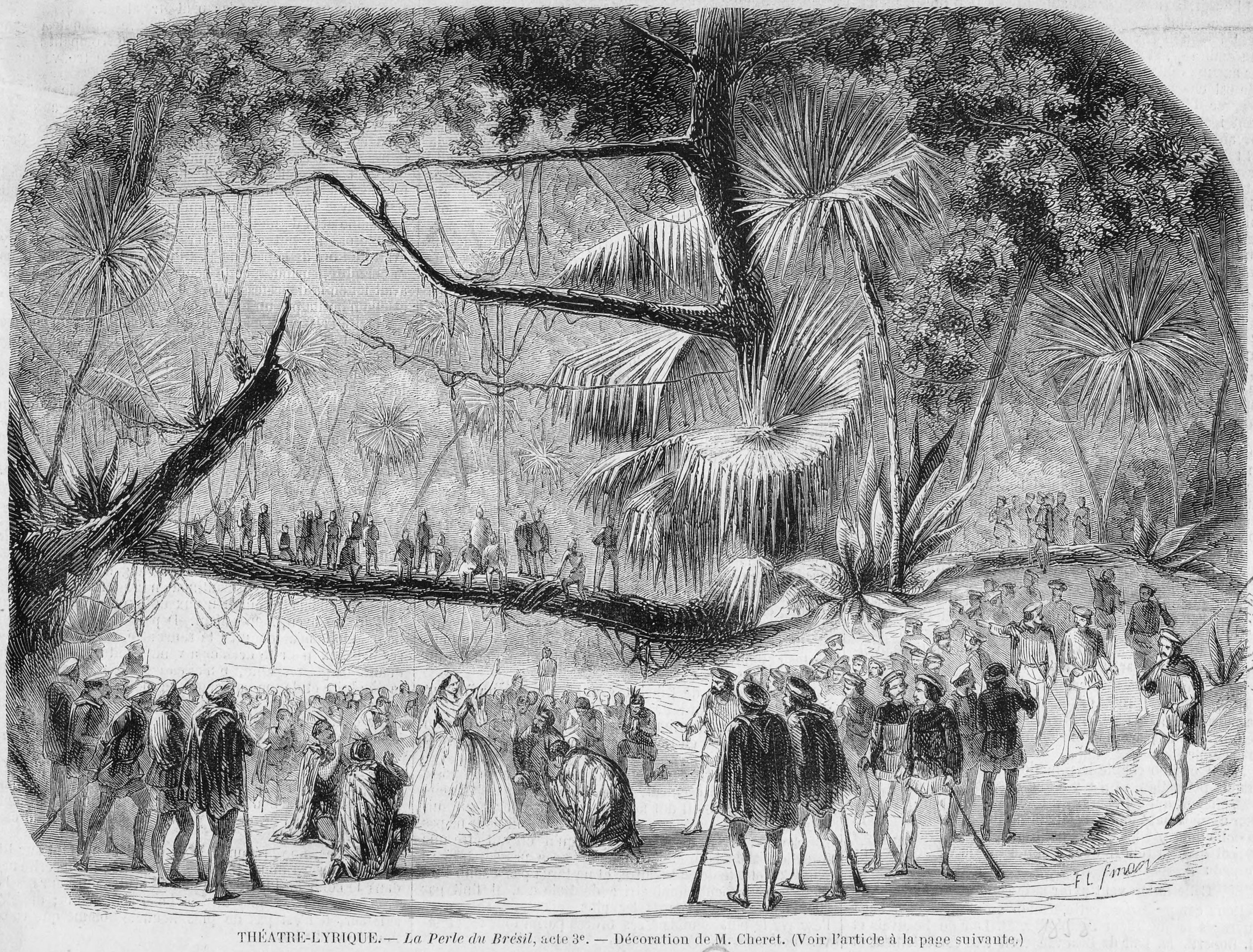 Press illustration of Act 3 of Félicien David's opera La perle du Brésil as premiered on 22 November 1851 by the Théâtre Lyrique in Paris